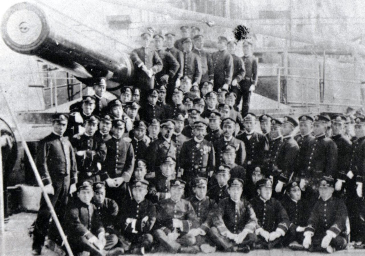 Japanese Naval Academy 30th Graduates, front row, left, Hyakutake Gengo